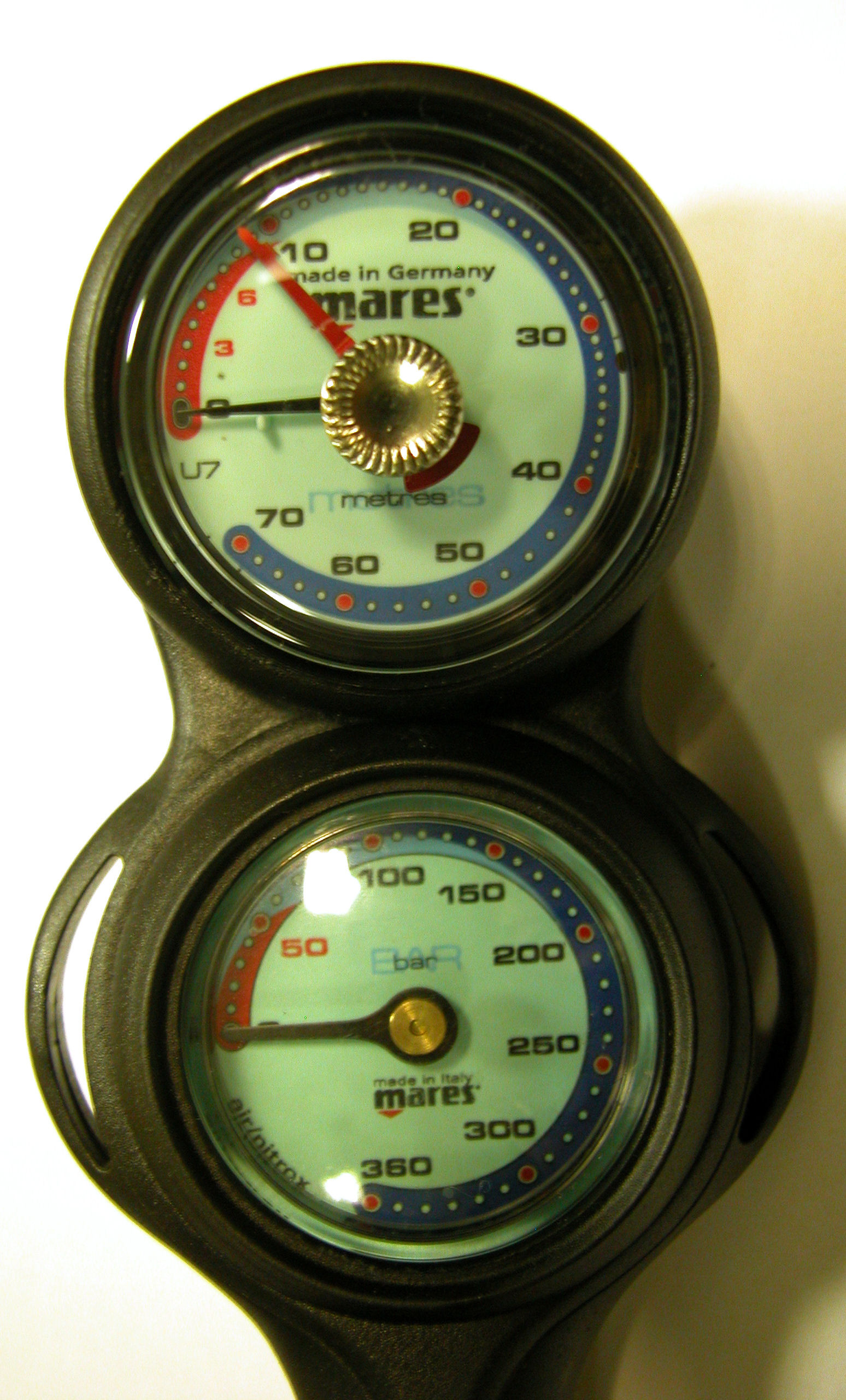 a depth gauge plus pressure gauge of Mares brand.